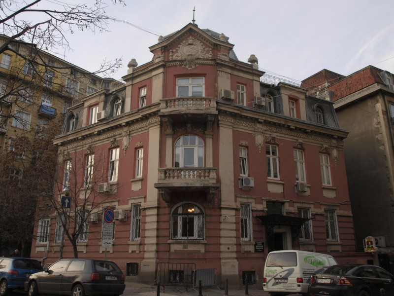 Kiro Stefanov's house in Sofia, at the corner of Moskovska and Paris Street